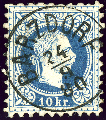 Austrian KK 10 kreuzer stamp, cancelled in 1880 at BARZDORF, now Bernartice u Javornika (Jesenik District), Moravia-Silesia region, Czech Republic